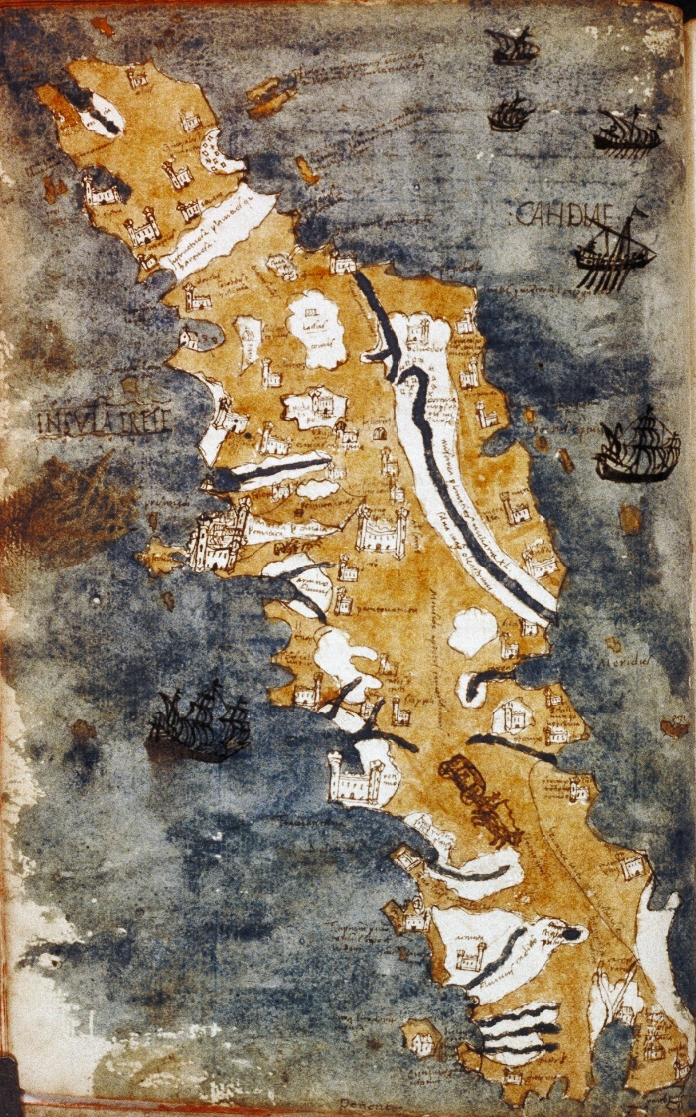 Italian manuscript map of Crete from Cristoforo Buondelmonti, De insulis archipelagi